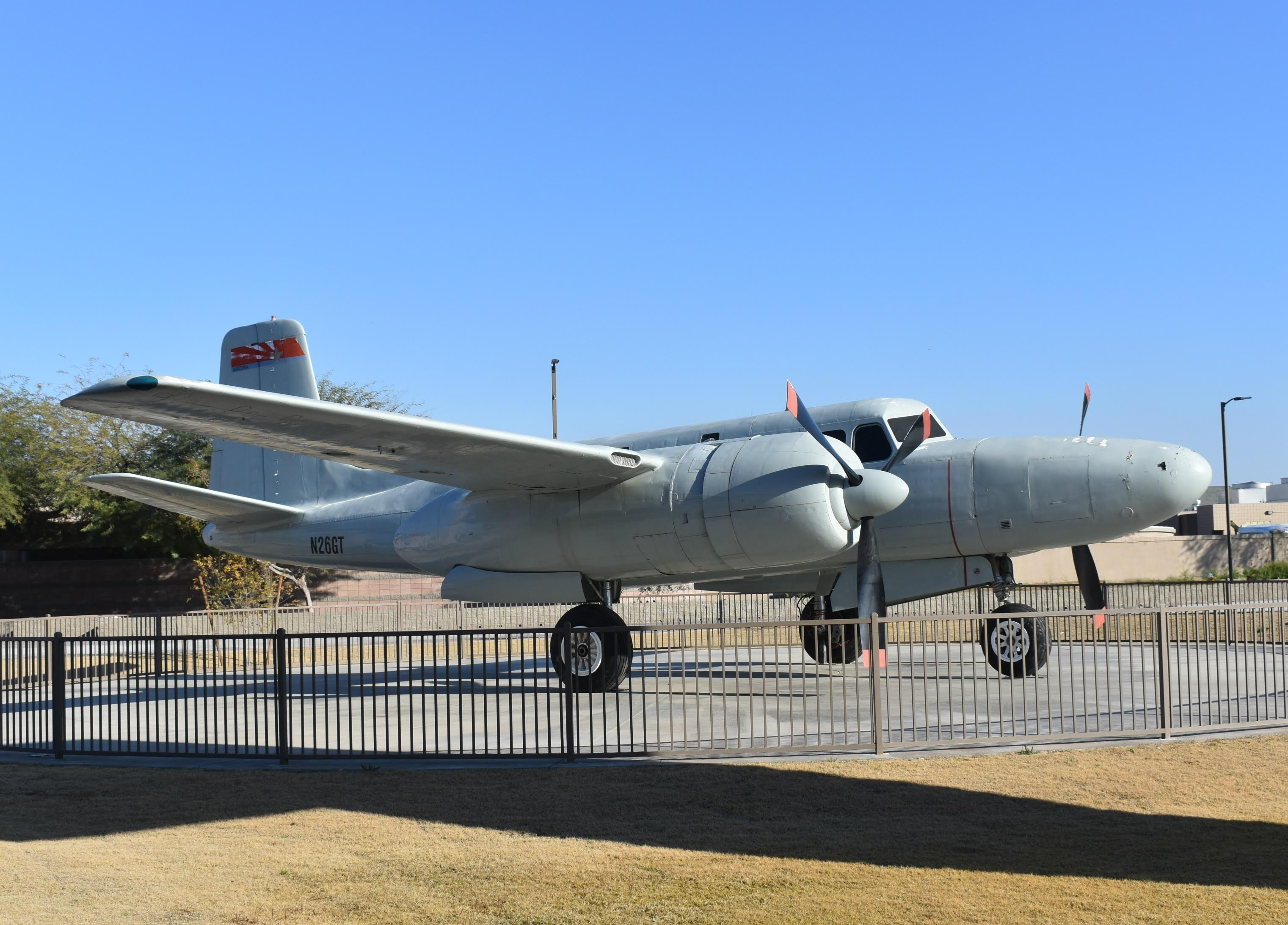 On Mark Marksman C N26GT is owned by South Mountain High School in Phoenix, Arizona, and was on display for many years inside the school. Now it has been placed closer to Central Avenue so it can be seen by all, but it's still on school grounds.